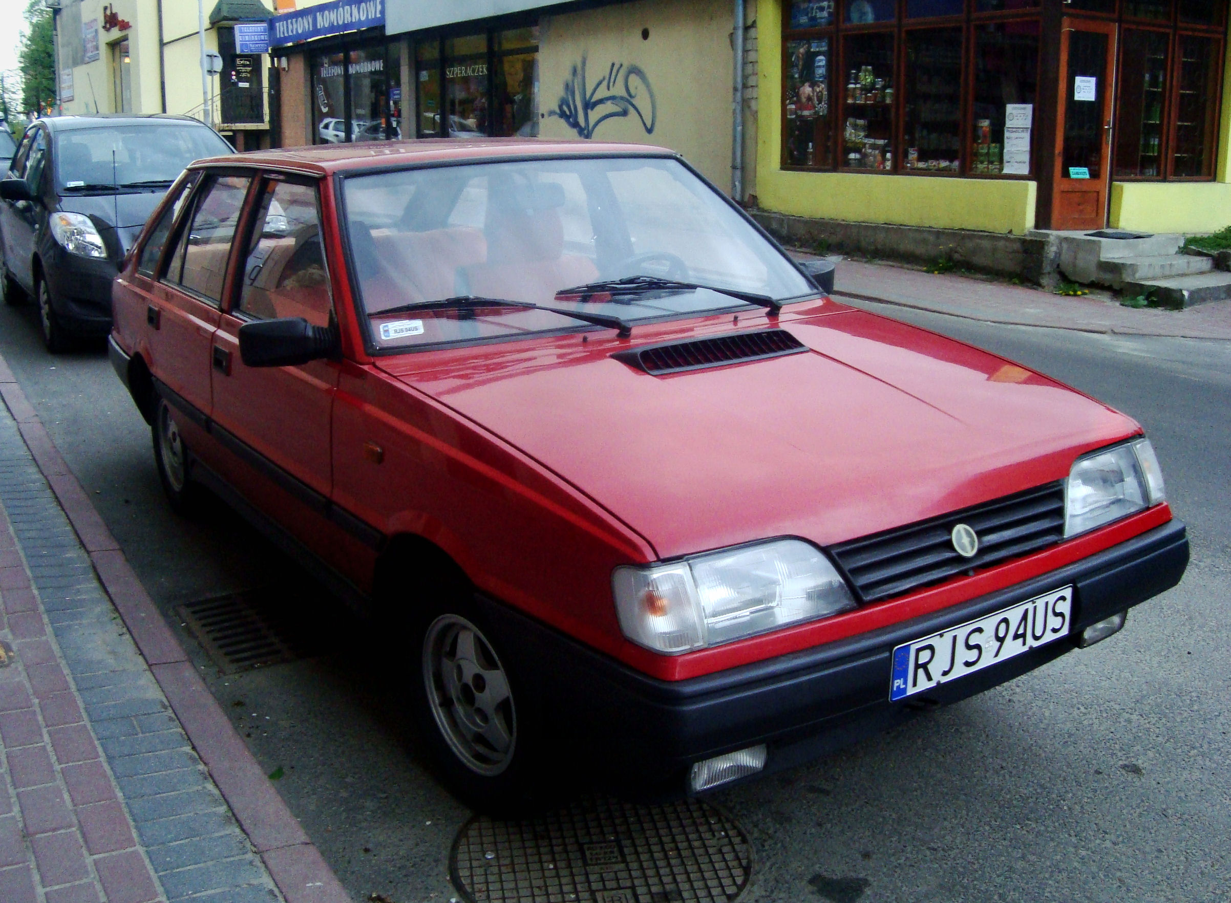 Red FSO Polonez Caro MR91 1.5 GLE seen in Jasło, Poland.